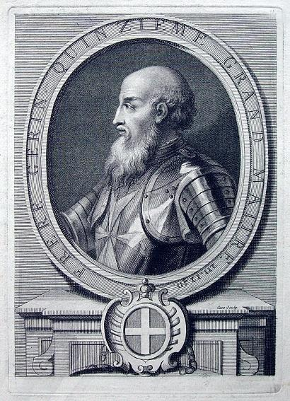 copper engraving, portrait of Guerin de Montaigu (c. 1168-1230), entitled FRERE GERIN QUINZIEME GRAND MAITRE